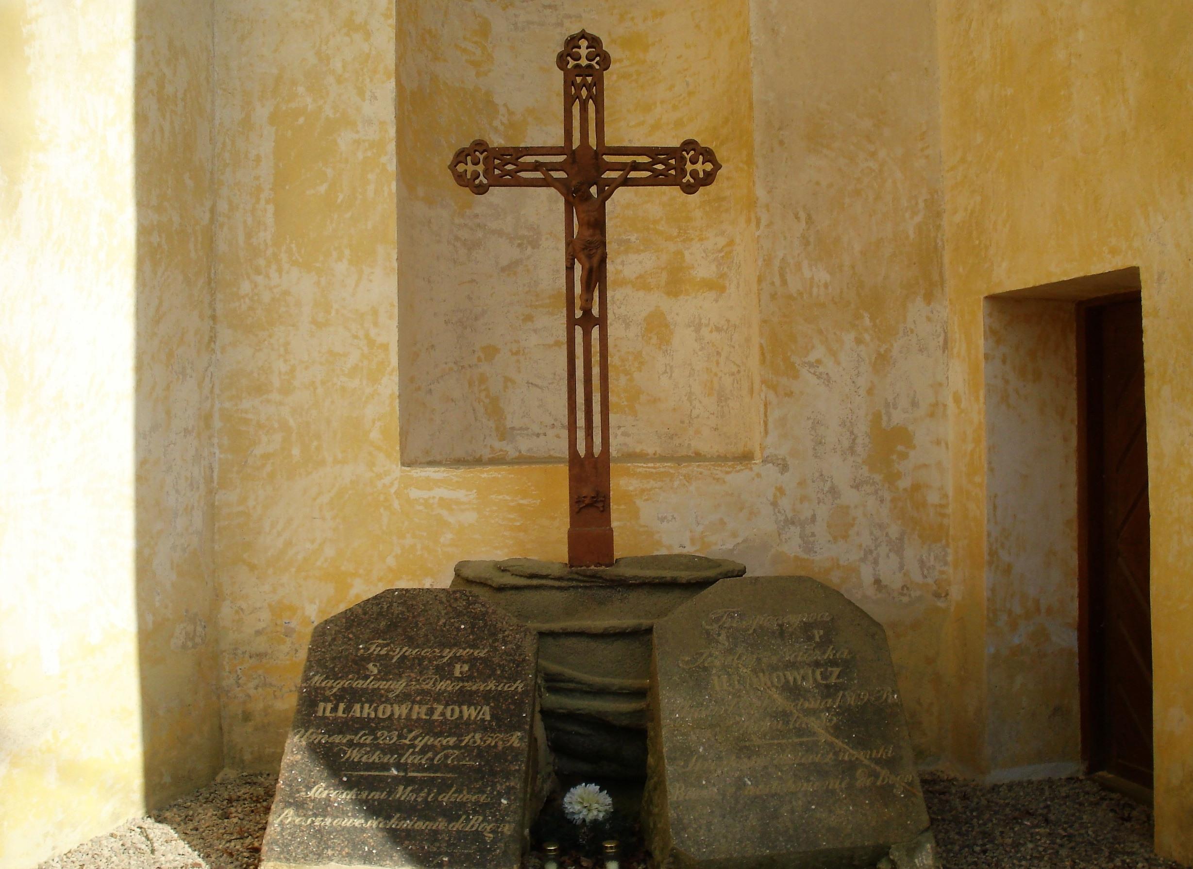 The gravestones of Iłłakowiczowa and Iłłakowicz